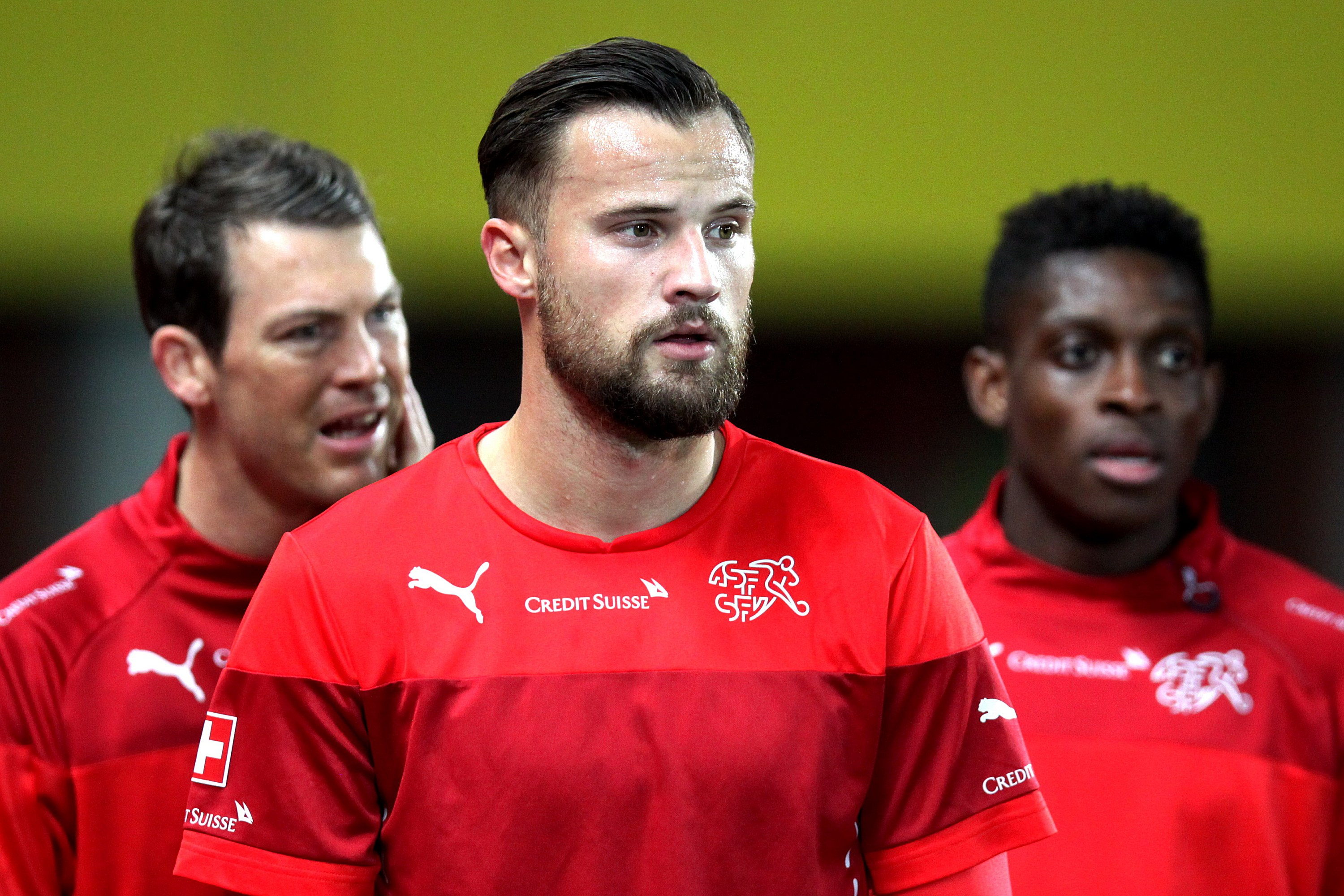 Friendly match – Austria (red shirts) vs. Switzerland (white shirts) 1-2 (1-2) – 2015-11-17 in Vienna, Ernst-Happel-Stadion – The photo shows (from left to right) Stephan Lichtsteiner, Haris Seferović and François Moubandje.